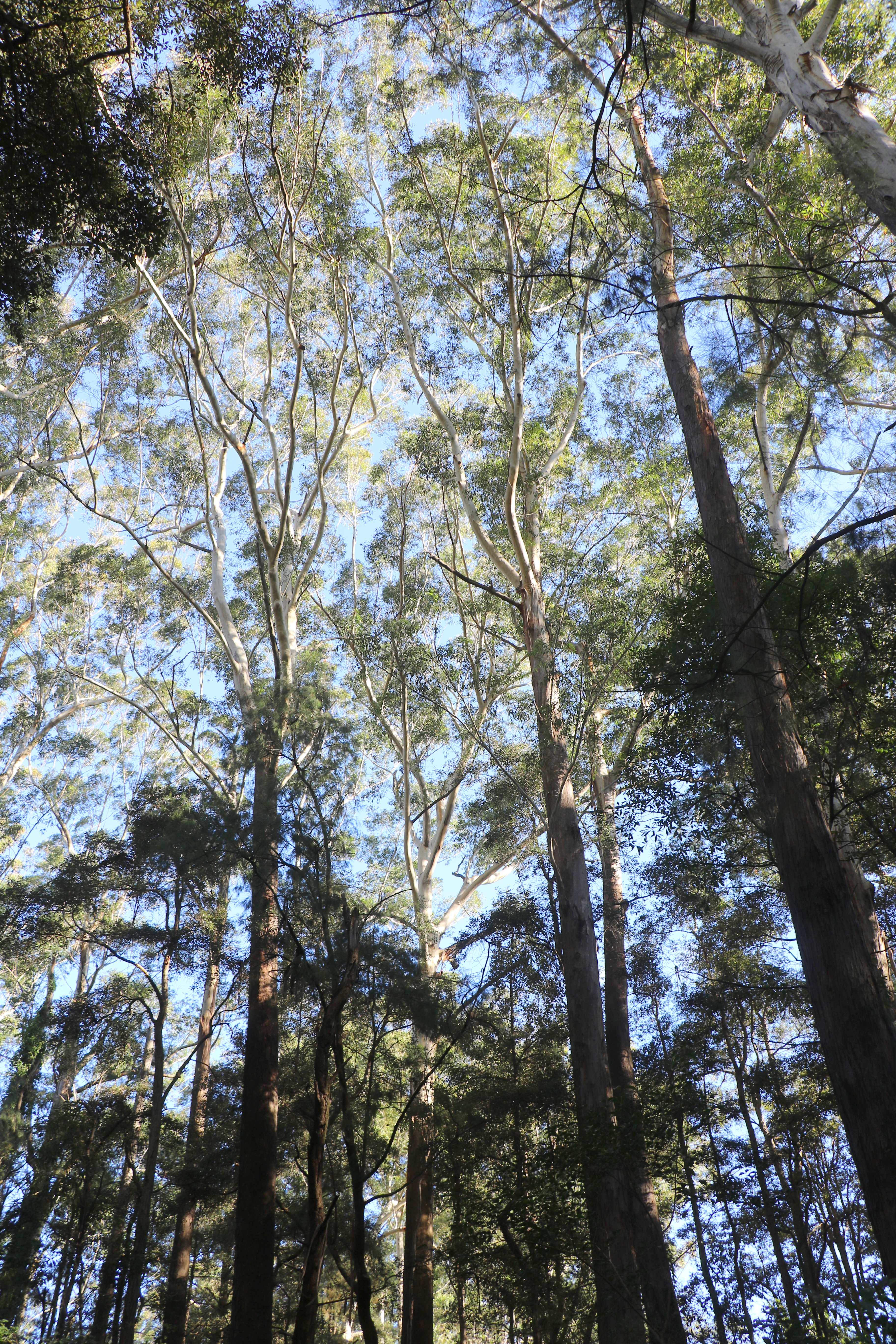 Blackbutt (Eucalyptus pilularis) Turiban reserve, 40 to 50 metres tall